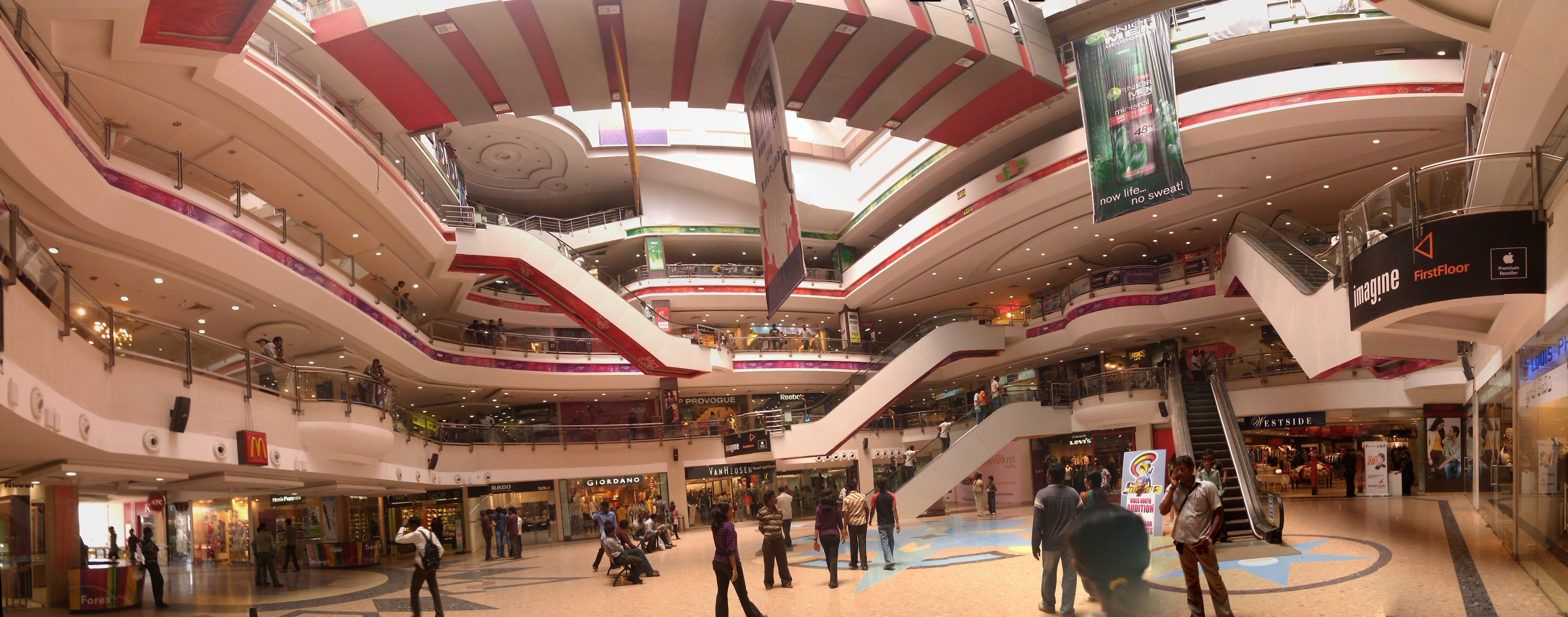 Skywalk Mall, Nelson Manickam Road, Chennai